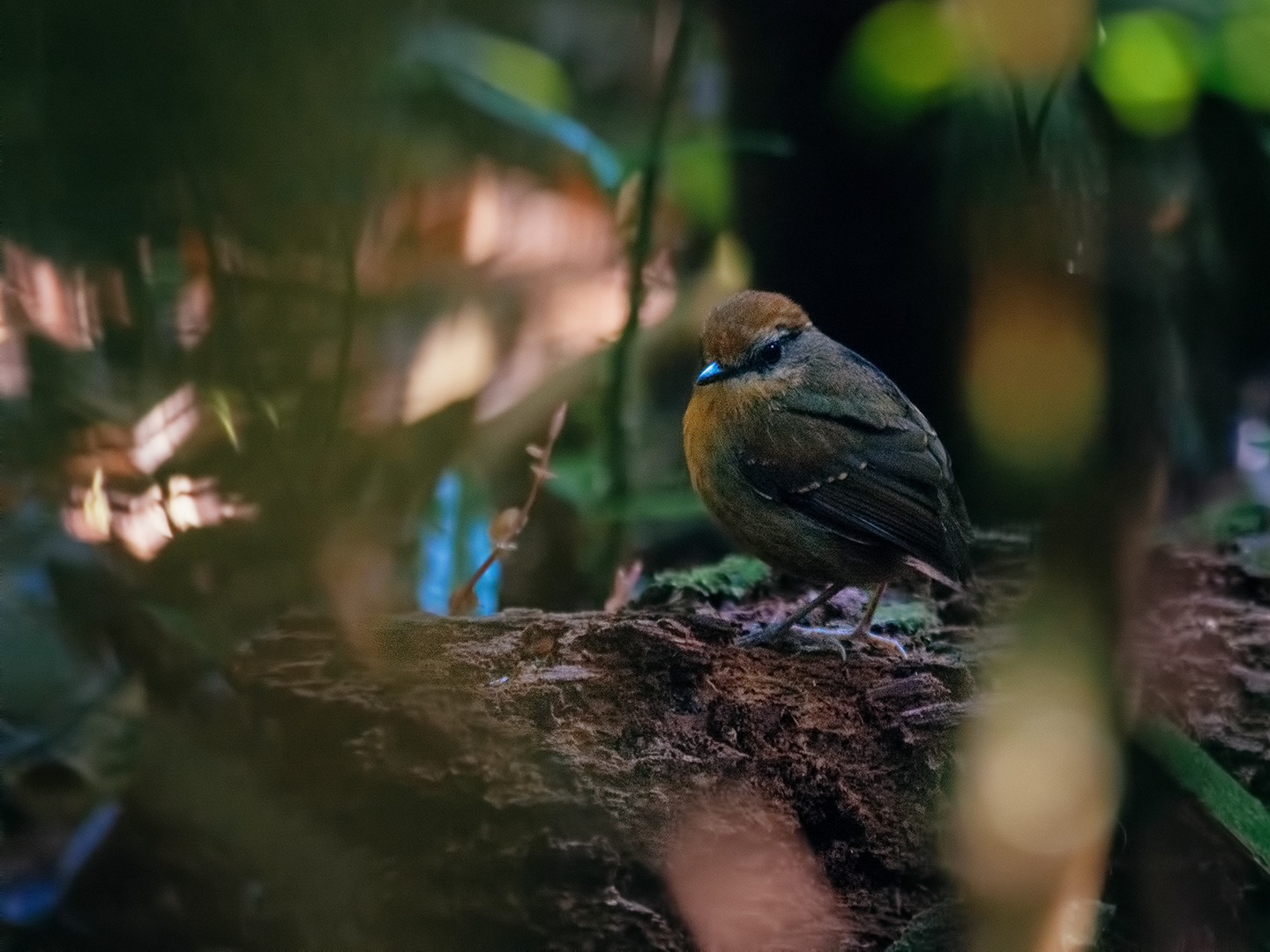 Female black-cheeked Gnateater from Tapiraí, São Paulo, Brazil (atlantic forest)